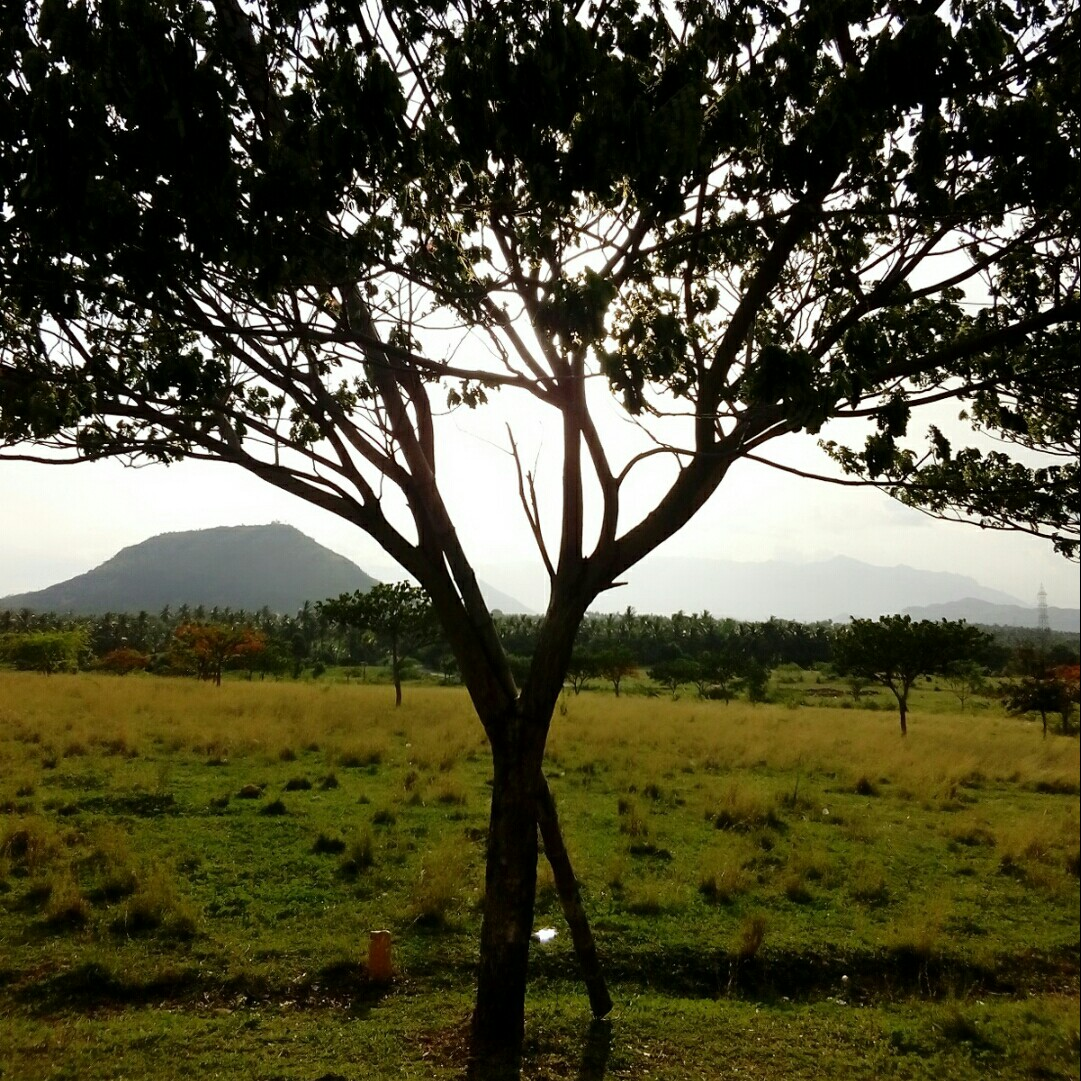 A small hill in Punjai puliampatti town